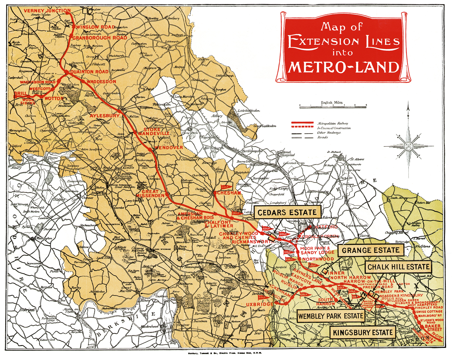 Map of "Metro-Land" and extension lines, published by the Metropolitan Railway in 1924.